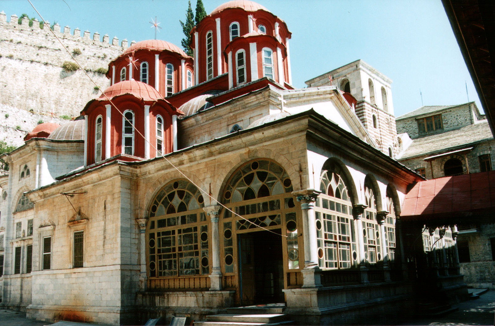 Katholikon of Agiou Pavlou monastery